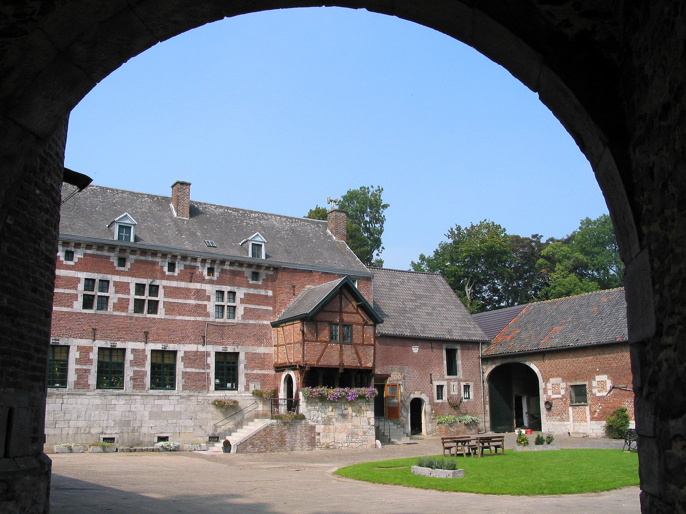 Les Waleffes (Belgium), entry porch of the Saint Peter’s farm.